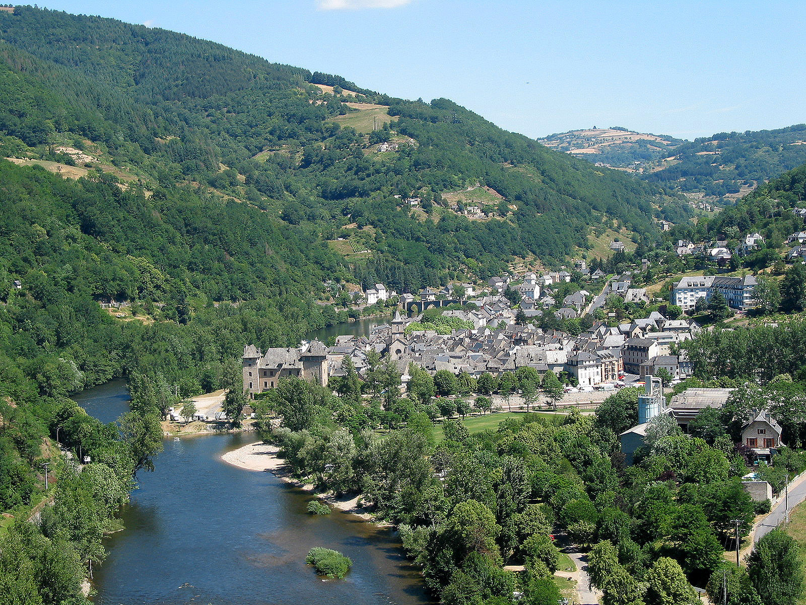 Entraygues-sur-Truyère (France), the old city and its gothic bridge (XIIIth century) on the Truyère river.